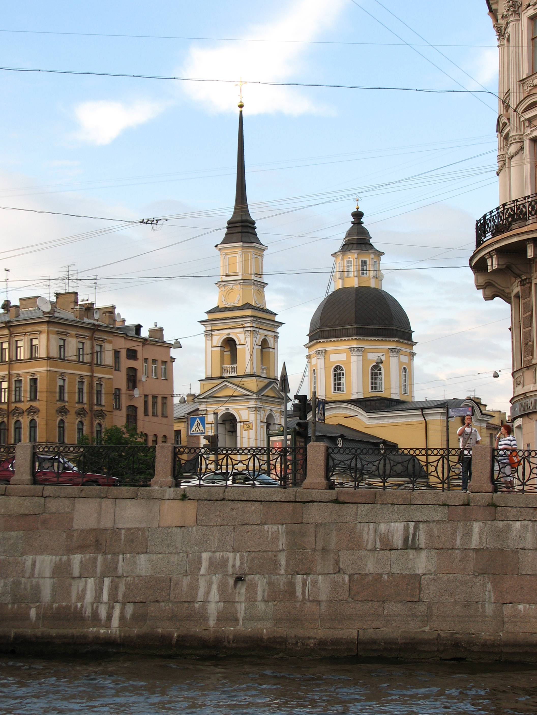 Saint Petersburg. Church of Simeon and Anna. A view from Fontanka river.